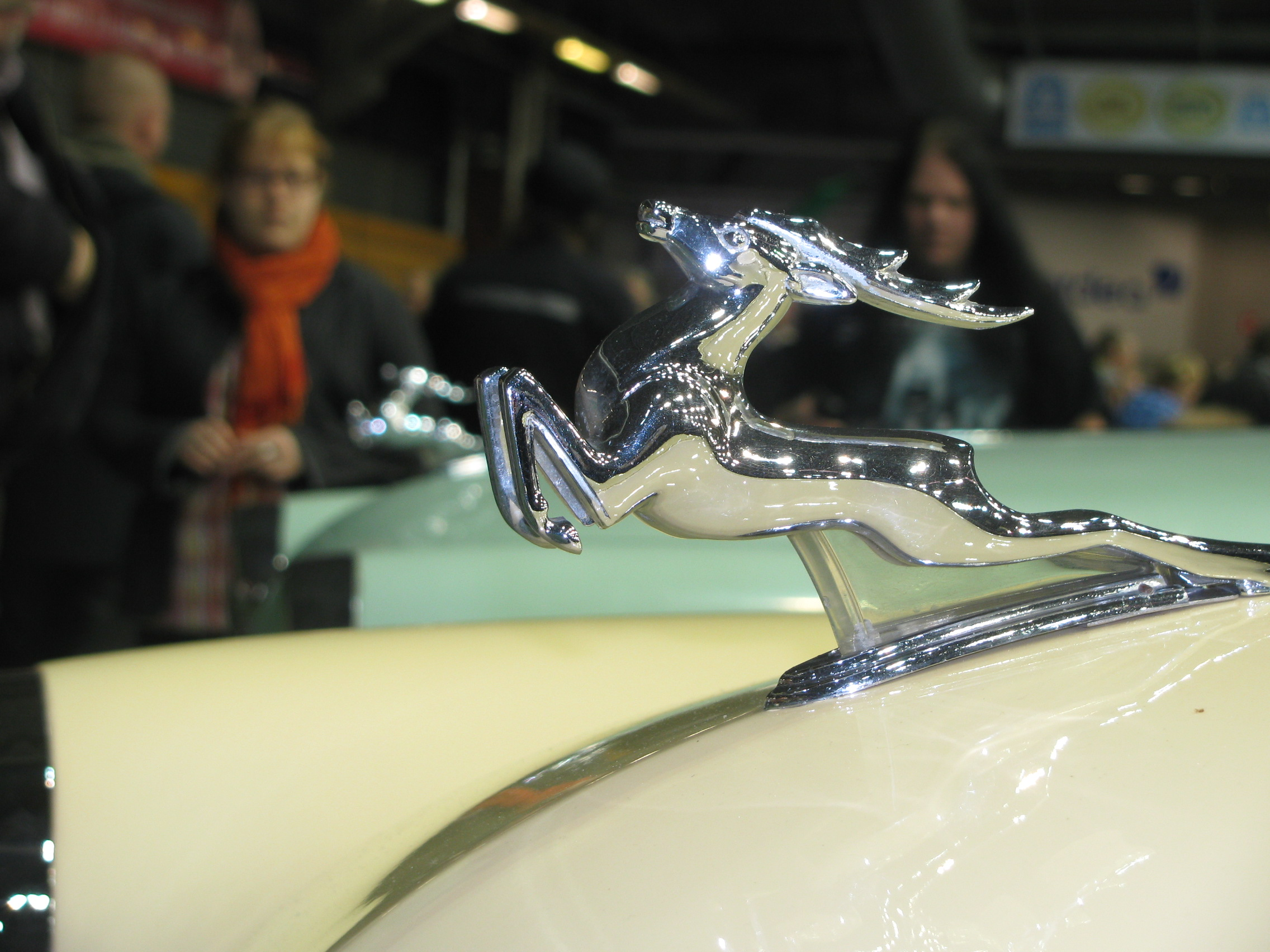 Volga M21 (GAZ-M21) badge sign. Classic Motor Show in Lahti, Finland.